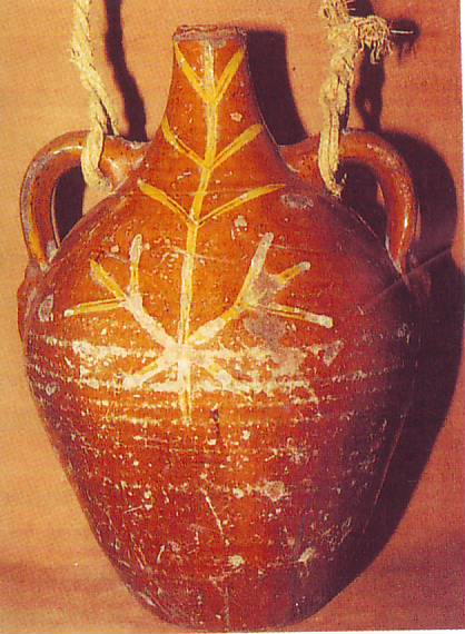 Botija from Ciudad Real, capital. Shown in the book Barreros of Lizcano Tejado.Para González Ortiz, however, is "Cantarilla water Agria", work of the workshop of Pantaleon Grande Rodríguez, in Puertollano, place where lies the famous sour water source.Botija or cantarilla, glazed completely, and with reason plant in the form of tree of life (decoration of tierra blanca).